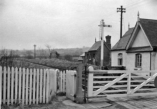 Biddulph Station (remains). Near to Gillow Heath, Staffordshire, Great Britain. View southward, towards Ford Green and Stoke; Stoke-on-Trent - Ford Green - North Rode (Biddulph Valley) line. Station and line closed to passengers long ago (11/7/27), but station not closed to goods until 5/10/64 and mineral trains ran over this stretch until 1/76.